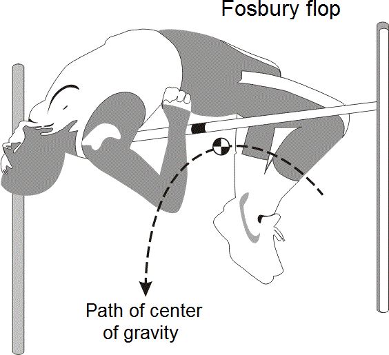 Image showing path of center of gravity in the Fosbury Flop